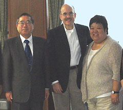 James Zumwalt, Charge d'Affaires, and Ann Kambara met Akihisa Inoue, President of Tohoku University, at Tohoku University in Sendai City, Miyagi Prefecture in 2009.